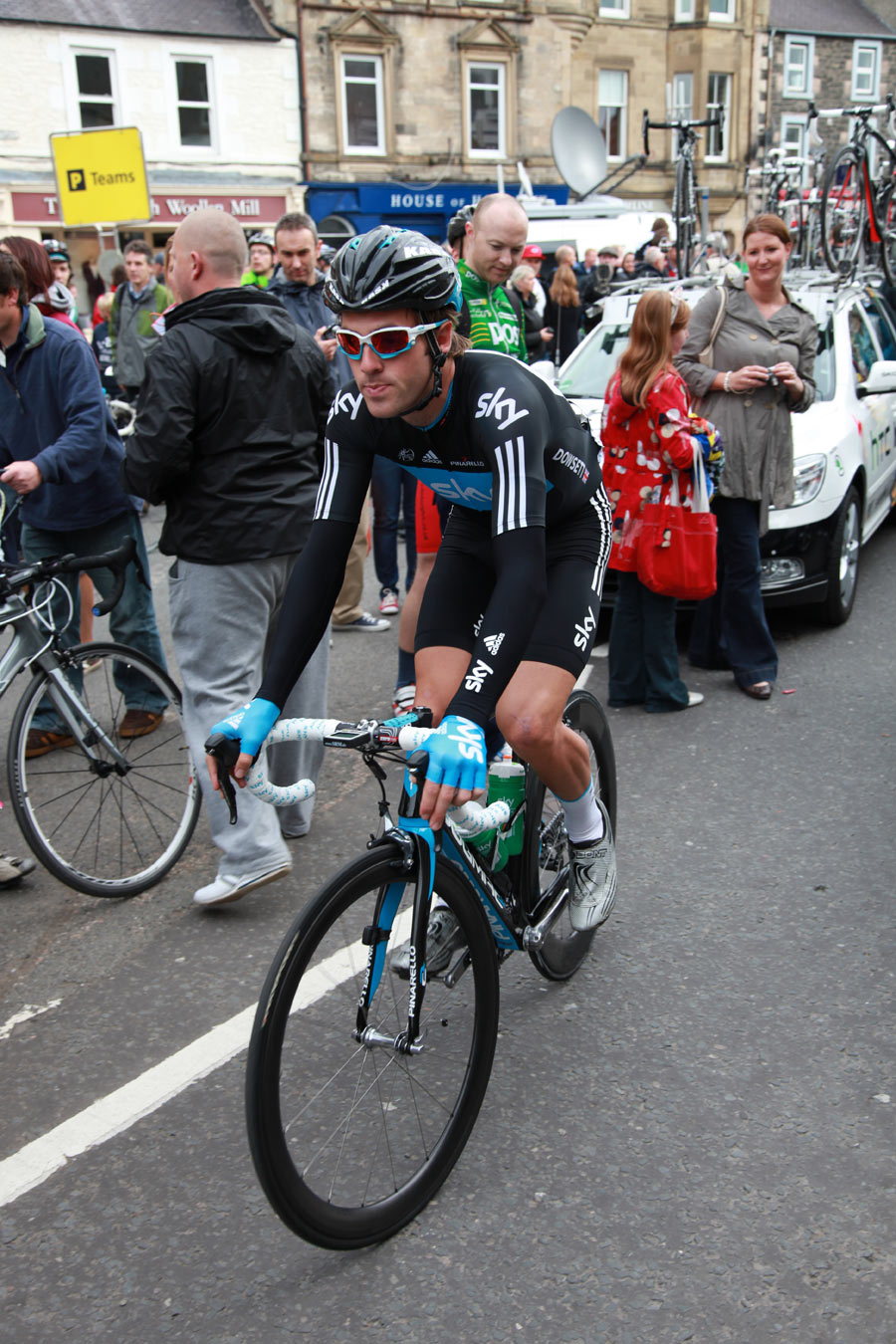 Tour Of Britain 2011